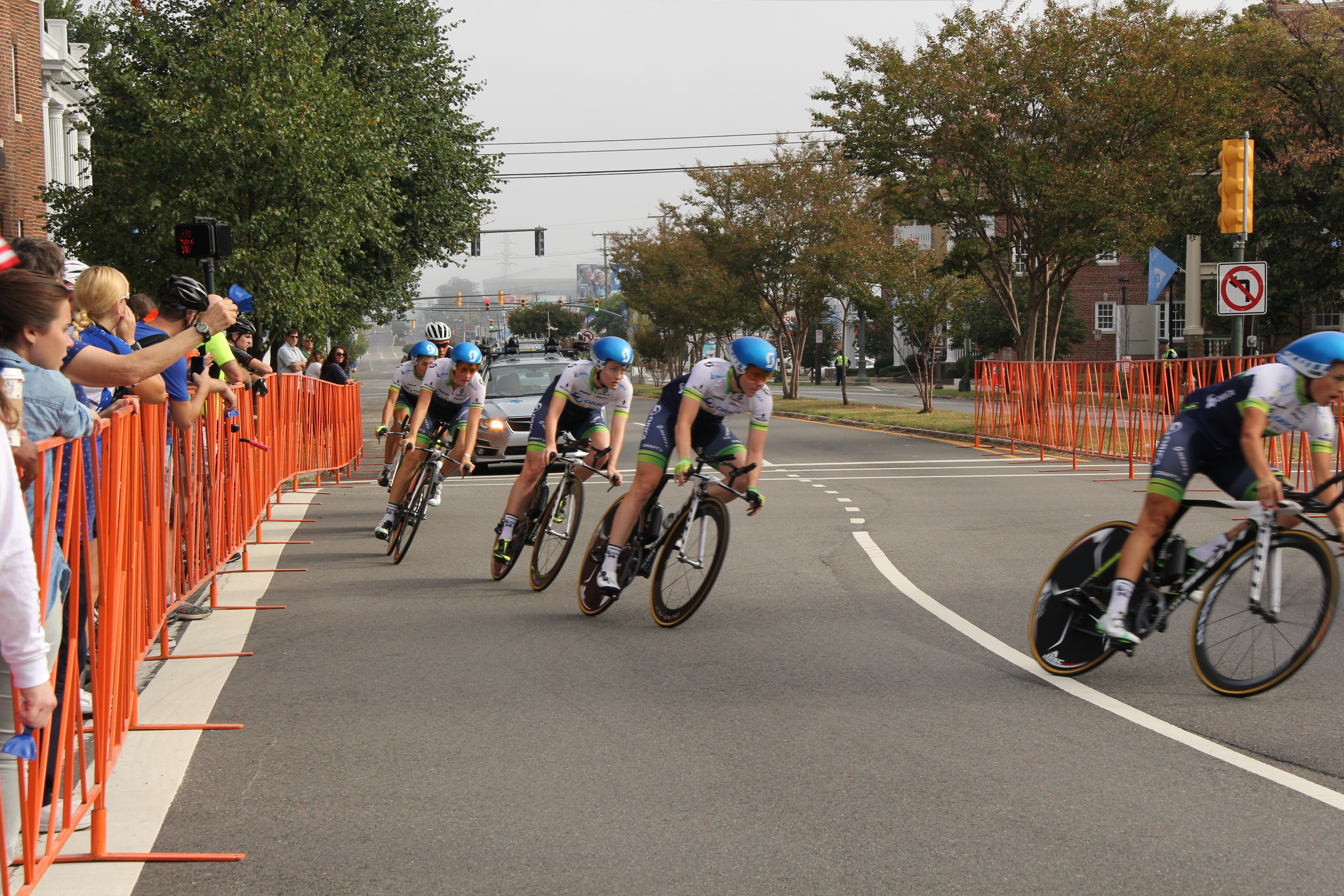 The world has come to Richmond. Welcome! Bienvenidos! Willkommen! 2015 UCI Road World Championships, in Richmond, United States